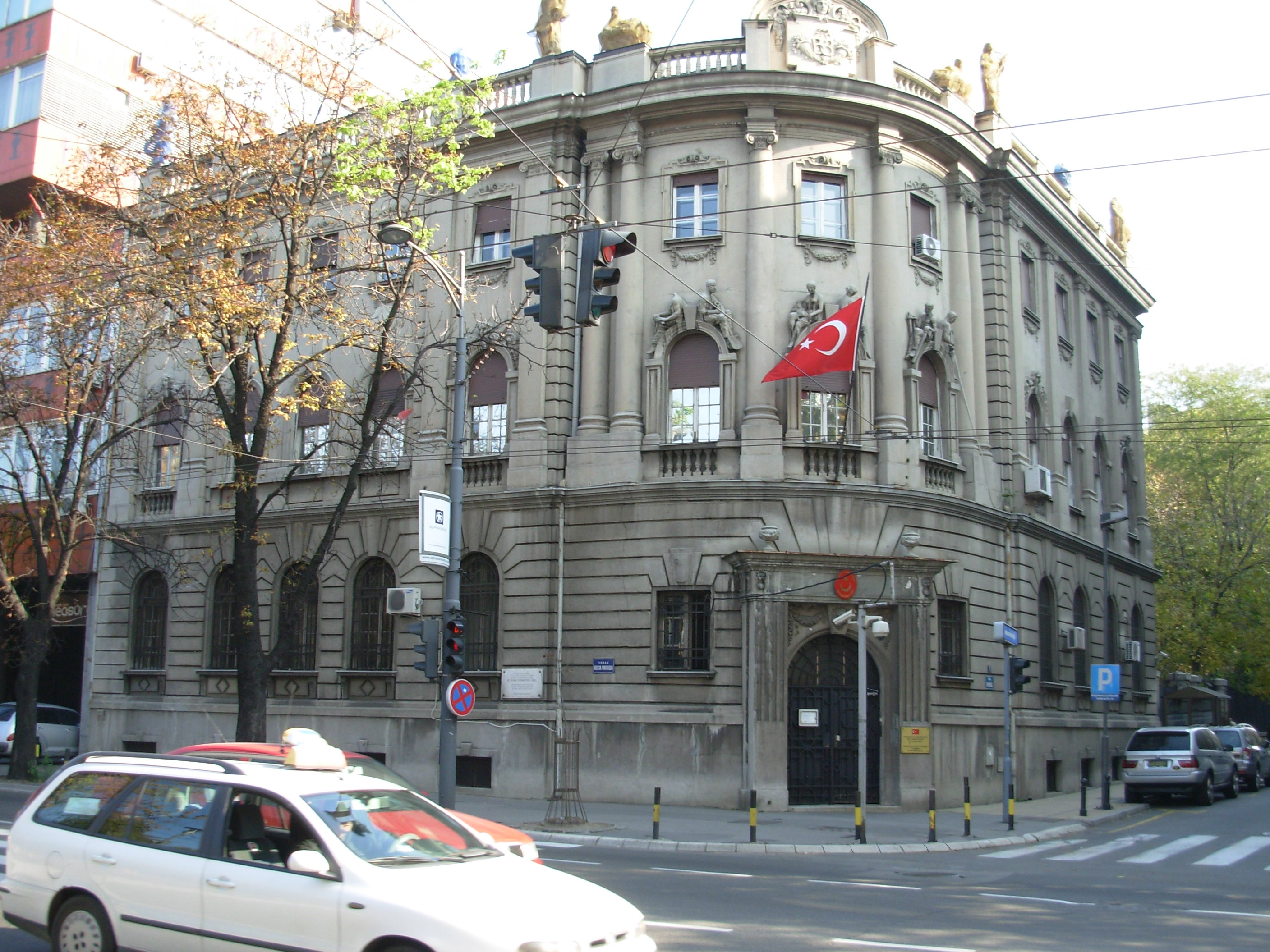 Turkish Embassy in Belgrade